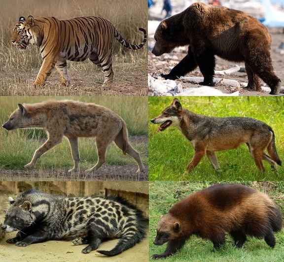 Eurasian Wolf